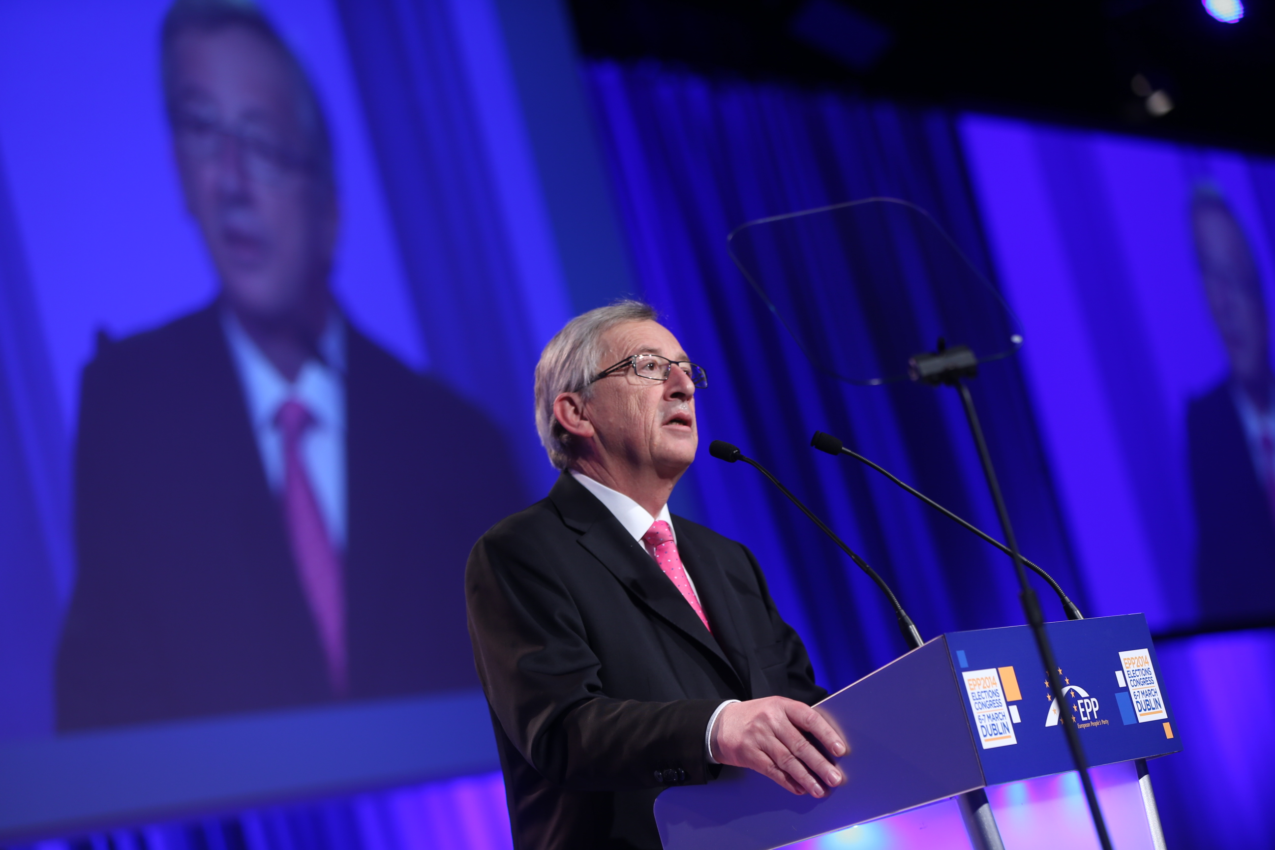 EPP Dublin Congress, 2014